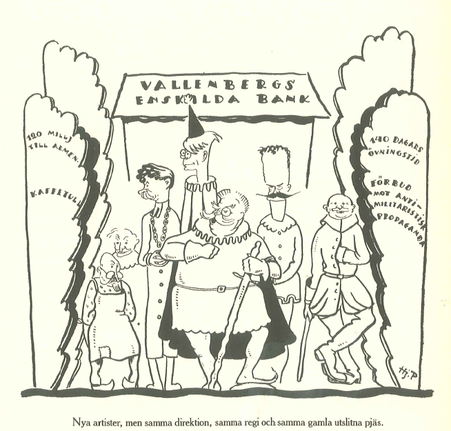 caricature of the 1924 Swedish cabinet, from Stormklockan November 11, 1924. The captions reads "Nya artister, men samma direktion, samma regi och samma gamla utslitna pjäs." ('New artists, but same direction and same old worn-out play')